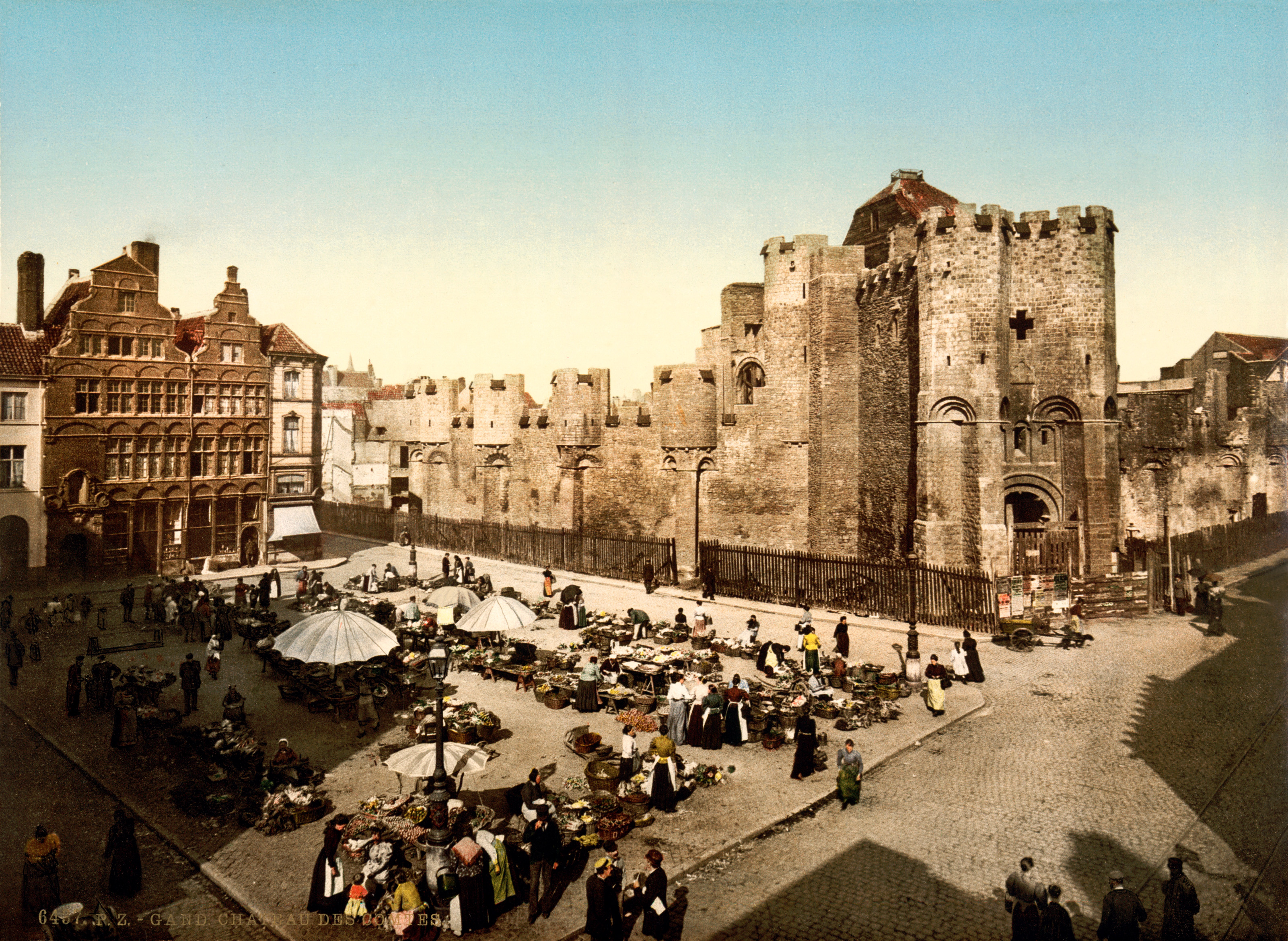 Gravensteen (Chateau des Comtes), Ghent, Belgium. 1 photomechanical print : photochrom, color.